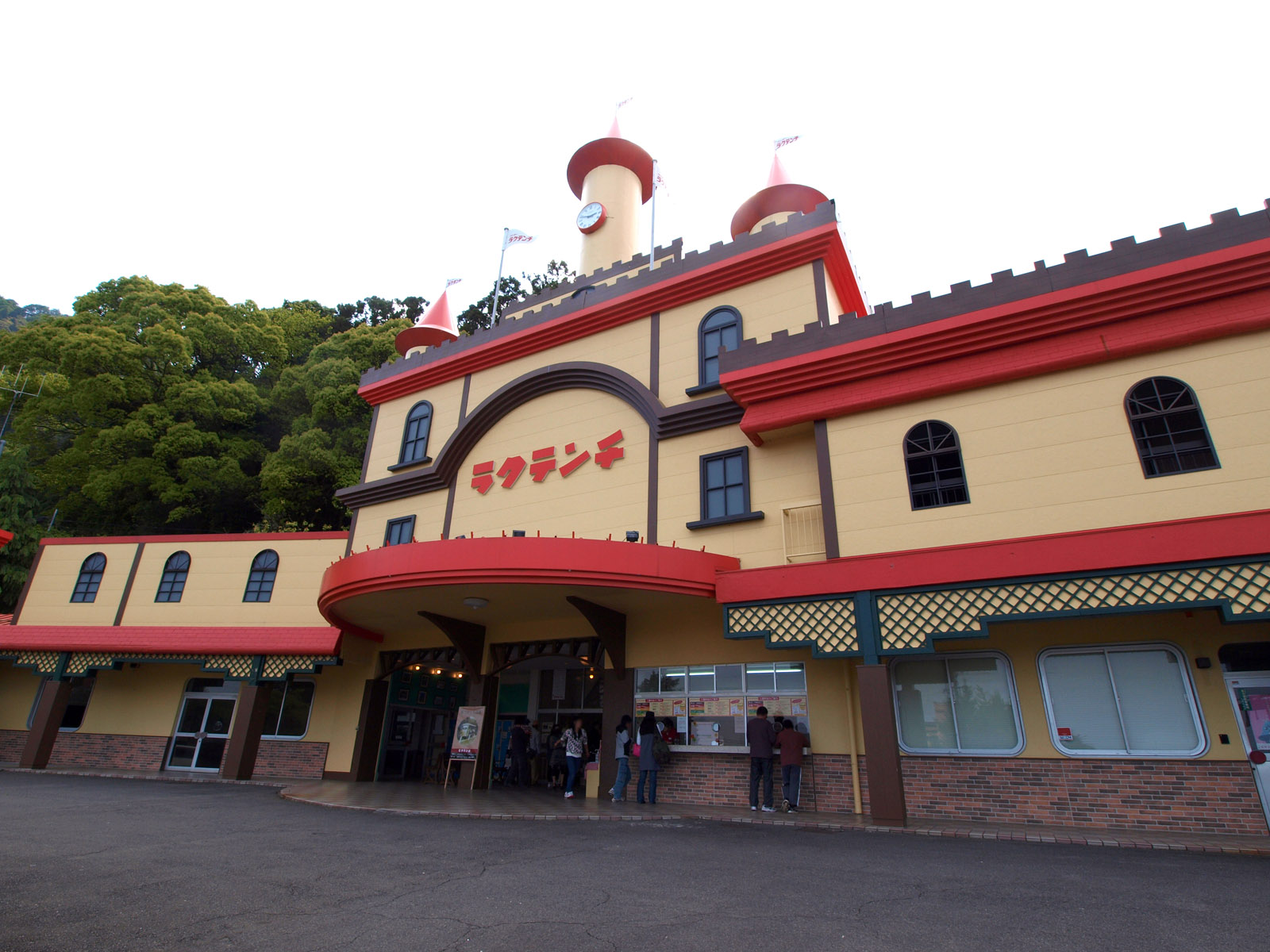 Beppu Rakutenchi, Beppu City, Oita Prefecture